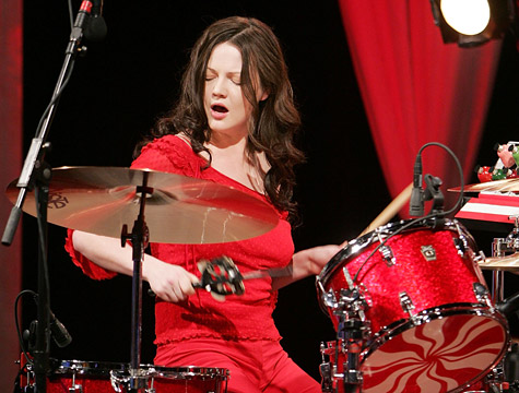 Meg White - drummer and songstress of the White Stripes